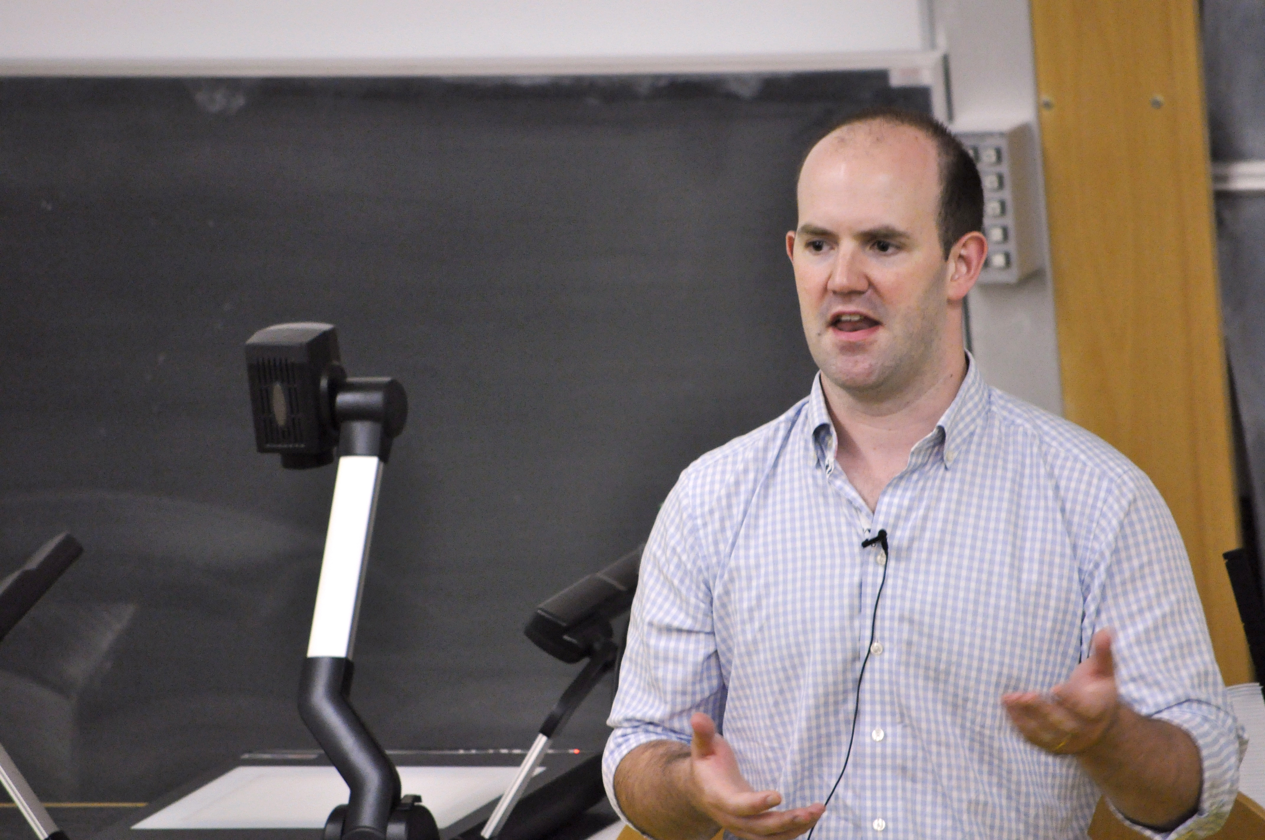 Eben Christopher Upton, Raspberry Pi Foundation